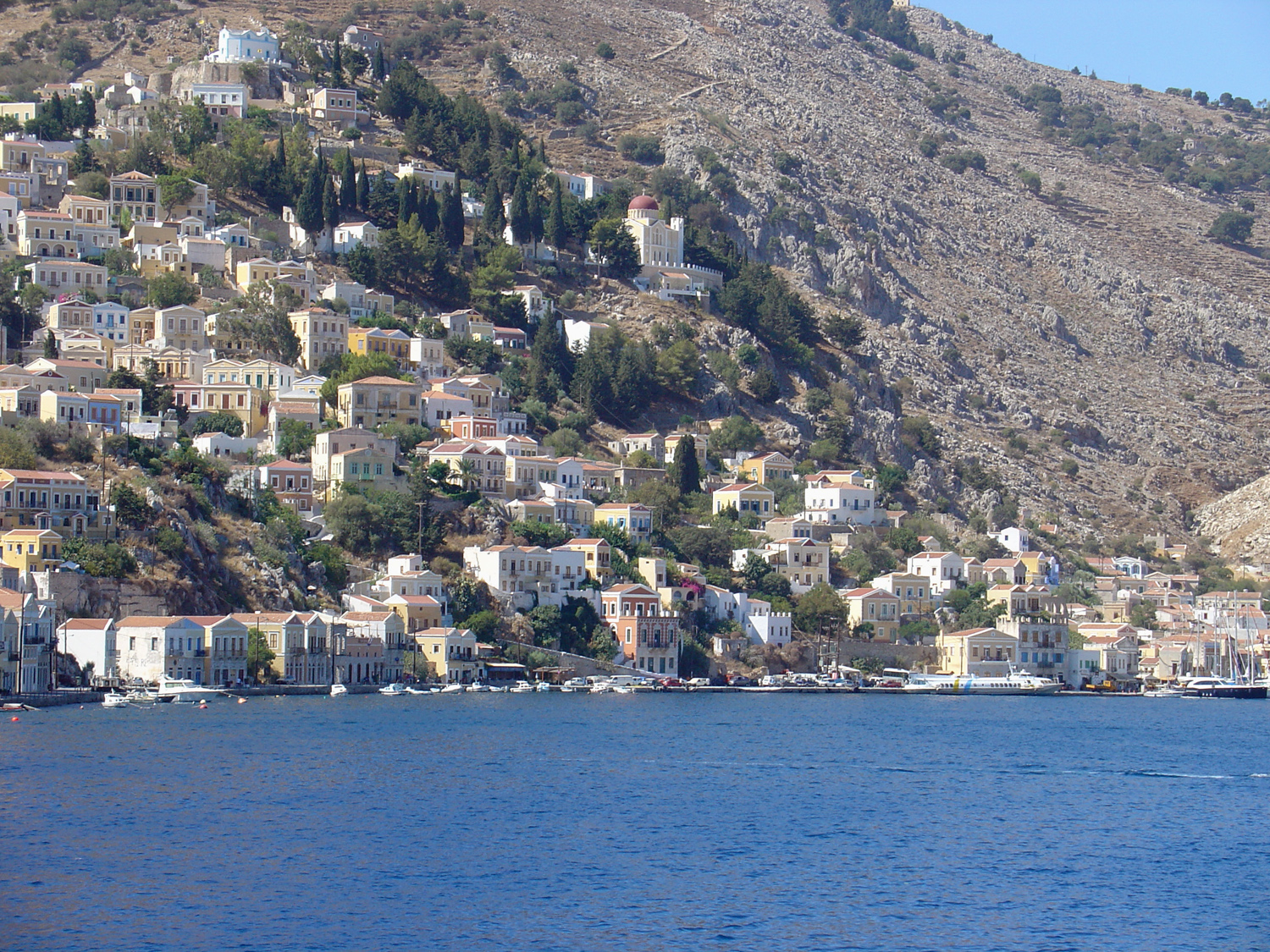 Small Greece town Sími on the Sími island